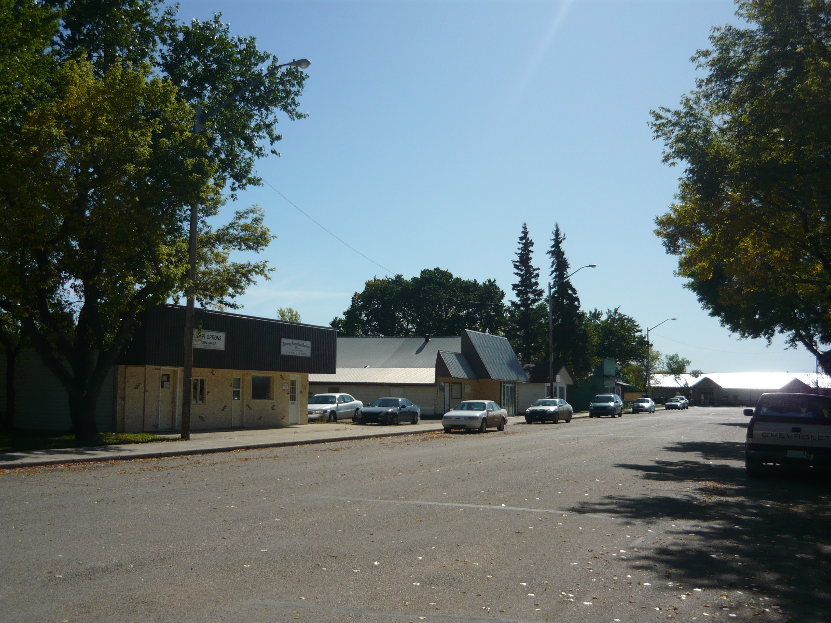 Business district of Dalmeny, Saskatchewan, Canada. Photo taken from intersection of Third Street and Wakefield Avenue, looking southward on Third Street toward the Town Office (building with sunlight reflecting off of the roof).